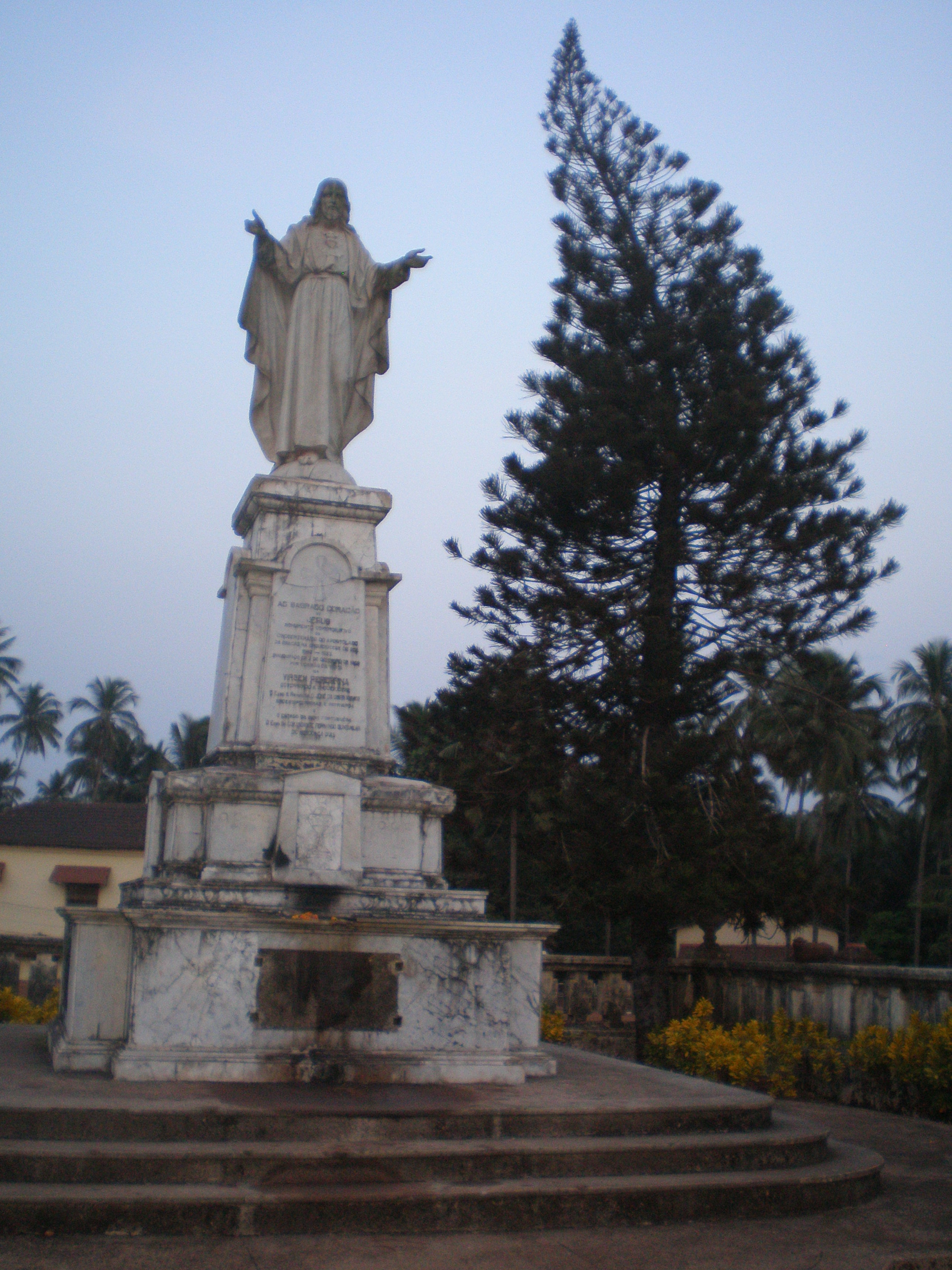 Jezuchea_Povitr_Kallzacho_Putllo,_Adlea_Goeam.JPG